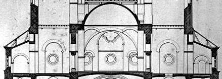 Cross section of the Keizaal in the Westwork of the Basilica of Saint Servatius in Maastricht, the Netherlands.